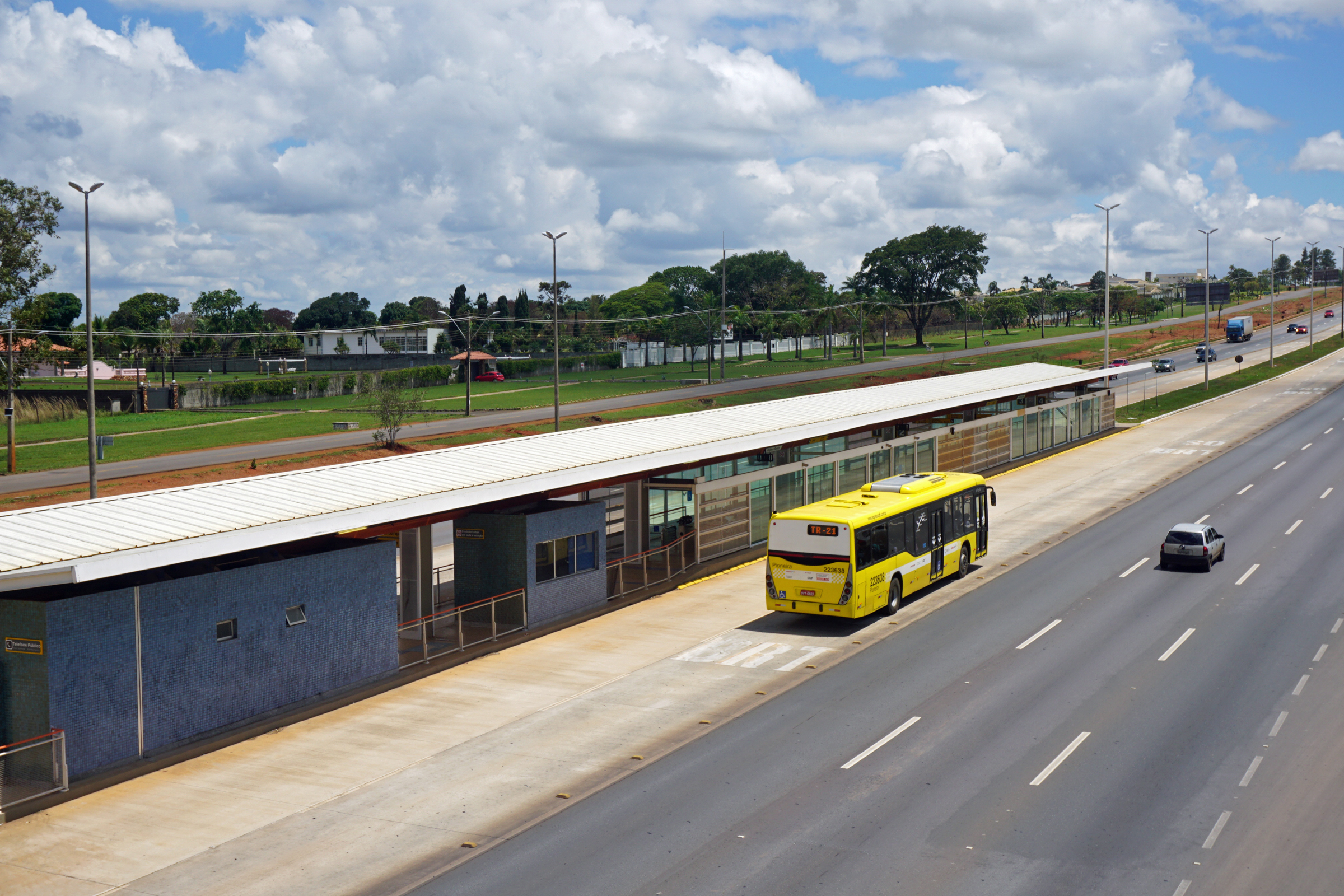 BRT Expresso DF Sul. Brasilia, Brazil